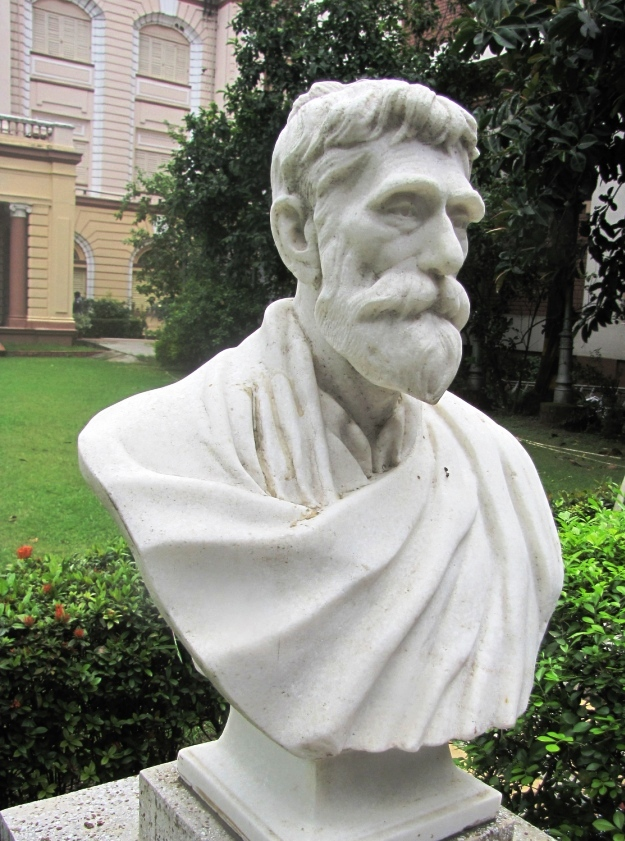 Bust of Prafulla Chandra Ray, a pioneering Indian chemist, which is placed in the garden of Birla Industrial & Technological Museum.